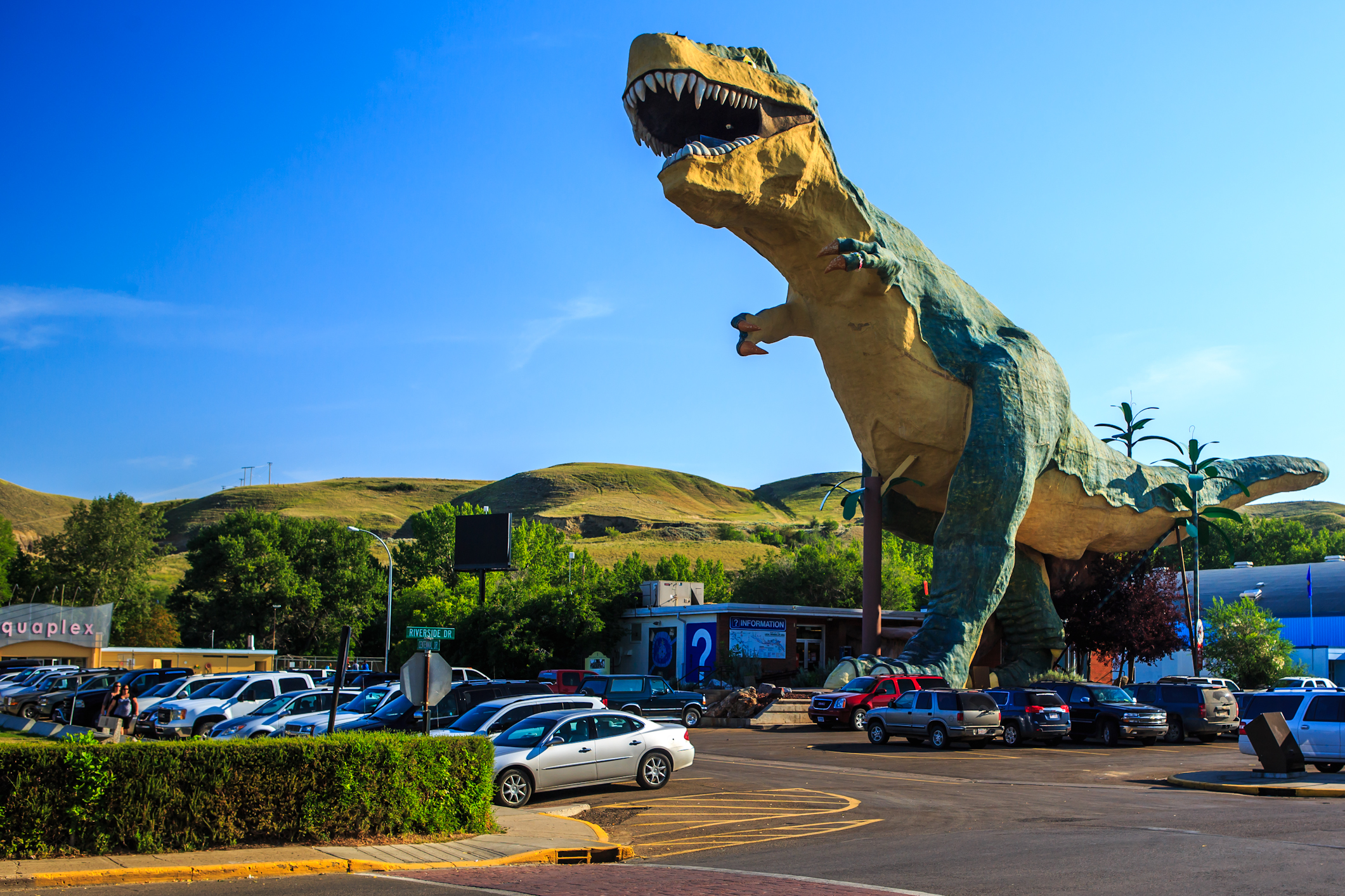 Drumheller & the Tyrell Museum